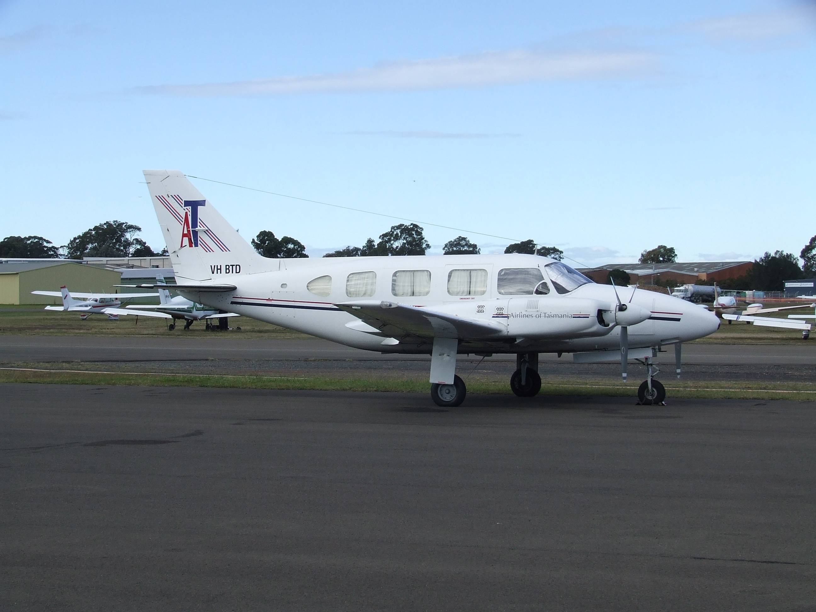 The Piper PA31 series of aircraft has long been a mainstay of third level/commuter airlines in the Western world. Navajo VH-BTD is one example, being operated by Airlines of Tasmania in 2007. Photo of VH-BTD taken at Bankstown Airport in Sydney, Australia on June 29 2007 by YSSYguy and uploaded to use in article about Airlines of Tasmania.